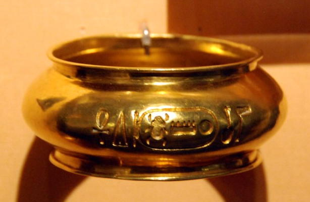 A gold bracelet inscribed with the prenomen of pharaoh Thutmose III found in General Djehuty's intact tomb. This object belonged to General Djehuty's funerary treasures and is now located in the Rijksmuseum van Oudheden at Leiden in the Netherlands. Djehuty was famous in Ancient Egyptian Egyptian literature for capturing the city of Joppa on Thutmose III's behalf by resorting to subterfuge. The Egyptian hieroglyphic inscription: Ntr-Nfr Mn-kheper-Ra Di-Ankh God-Beautiful-(Wonderful) Men-Kheper-Ra-(Thutmose III) Given-Life (see Talk page)